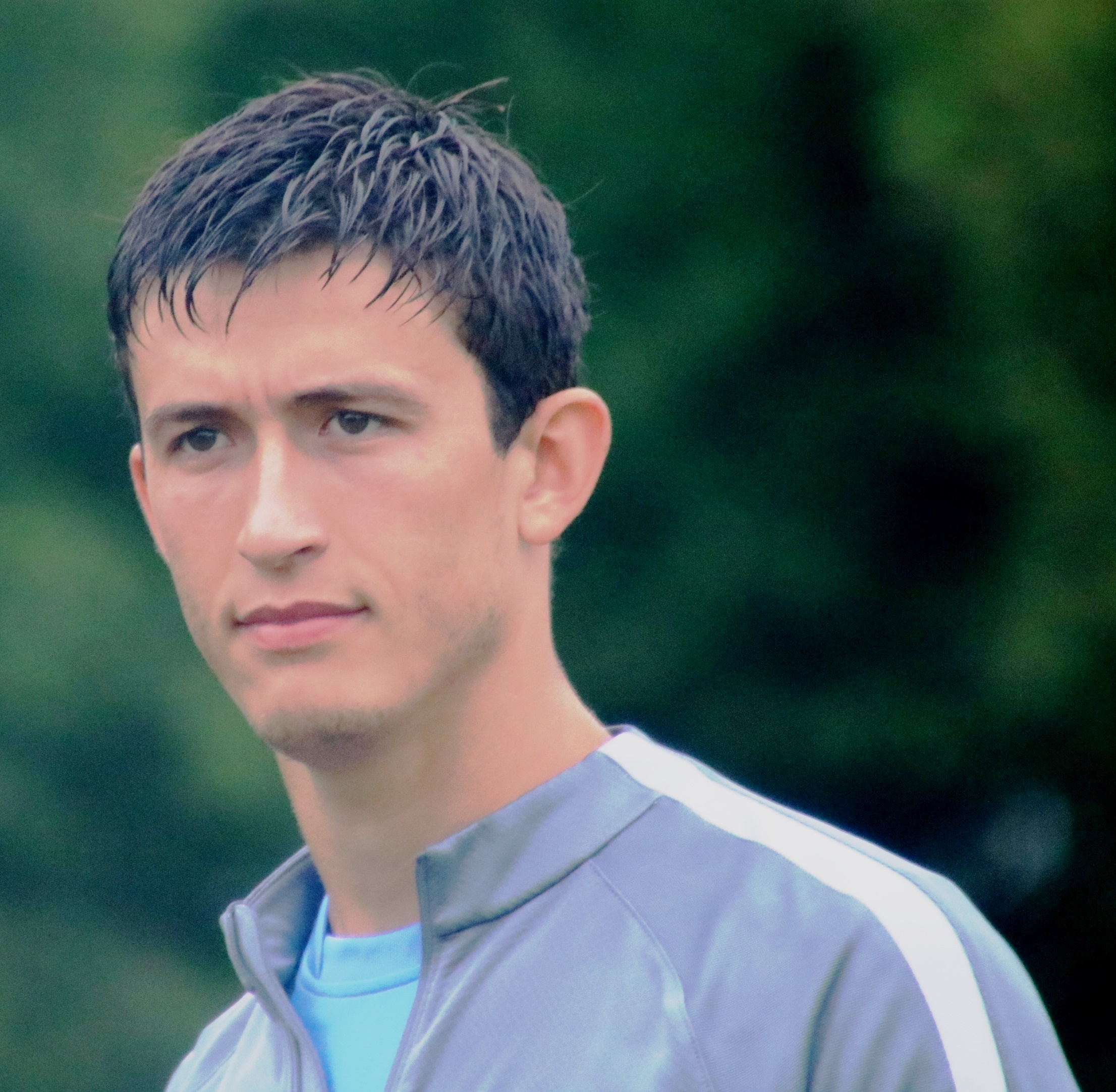 friendly match